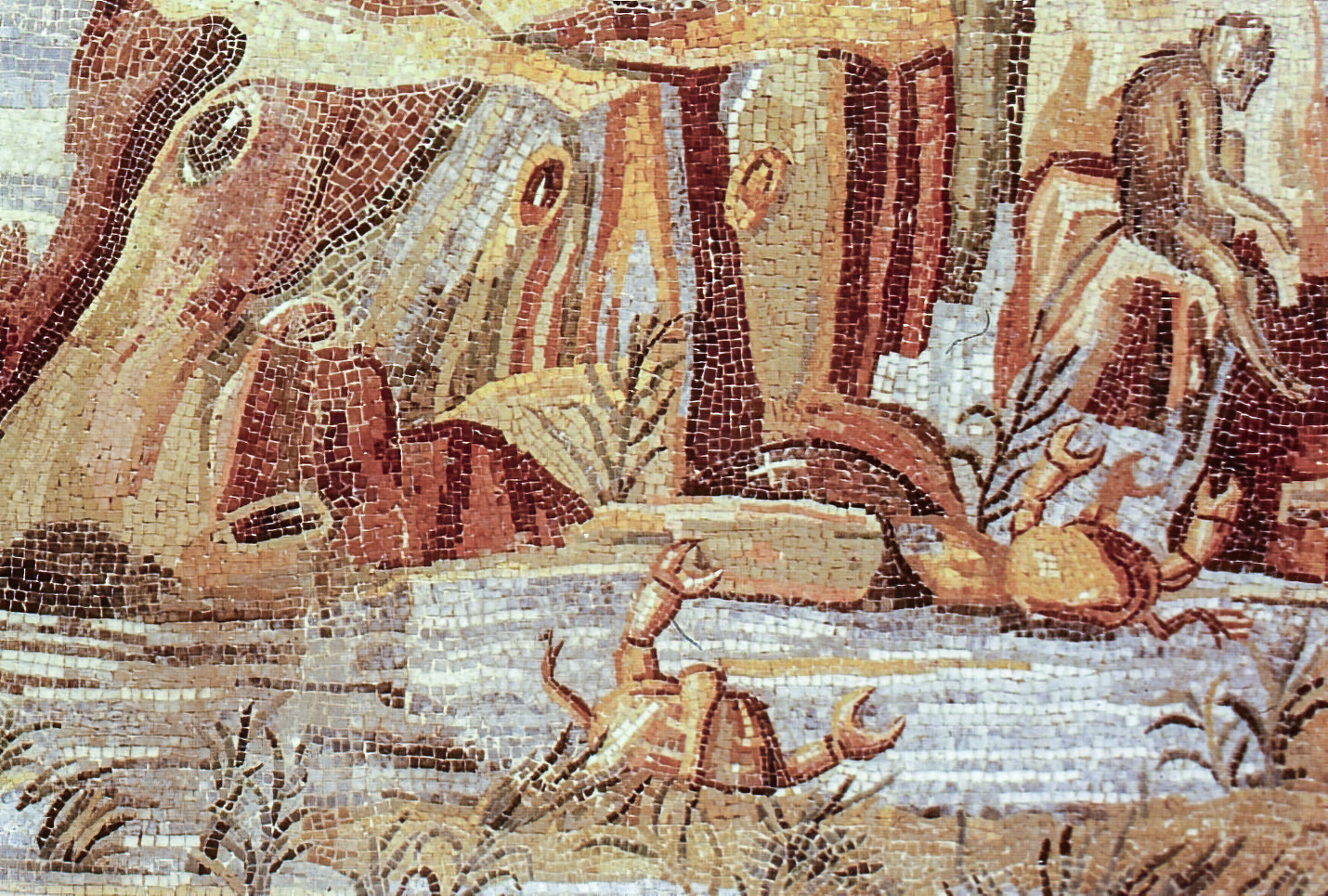 Detail of Nile mosaic from Palestrina (section 2). Museo Nazionale Palestrina, Italy.